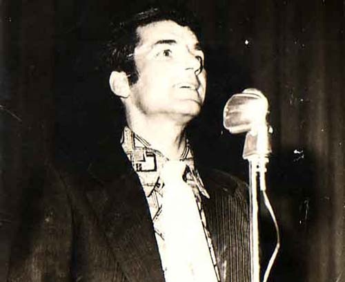 Freydun_Grayelli